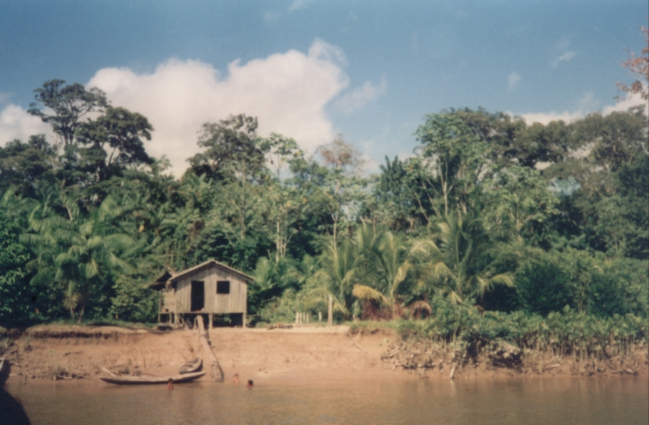 Common Amazon housing, Brazil.